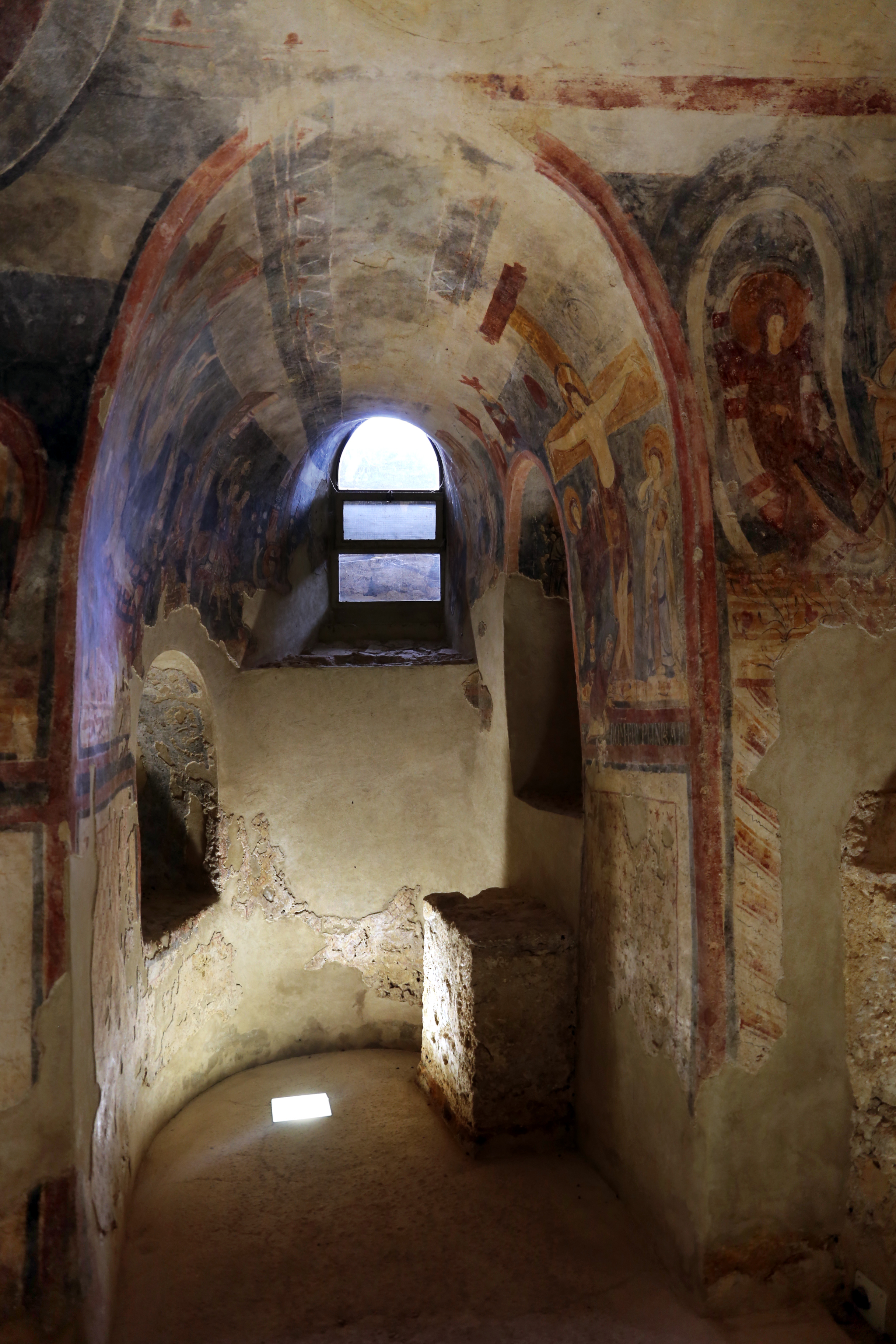 Epifanio Crypt